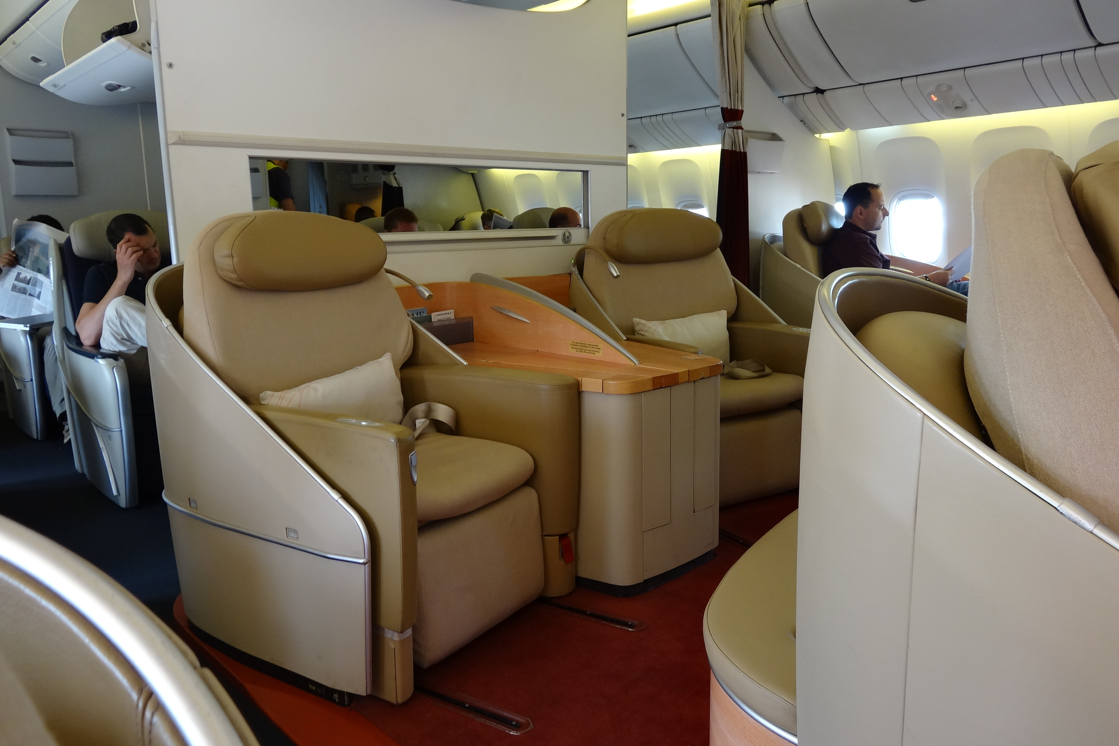 F-GSQM 777 AIR FRANCE FIRST CLASS BEFORE TAKE OFF FLIGHT CDG-IAH